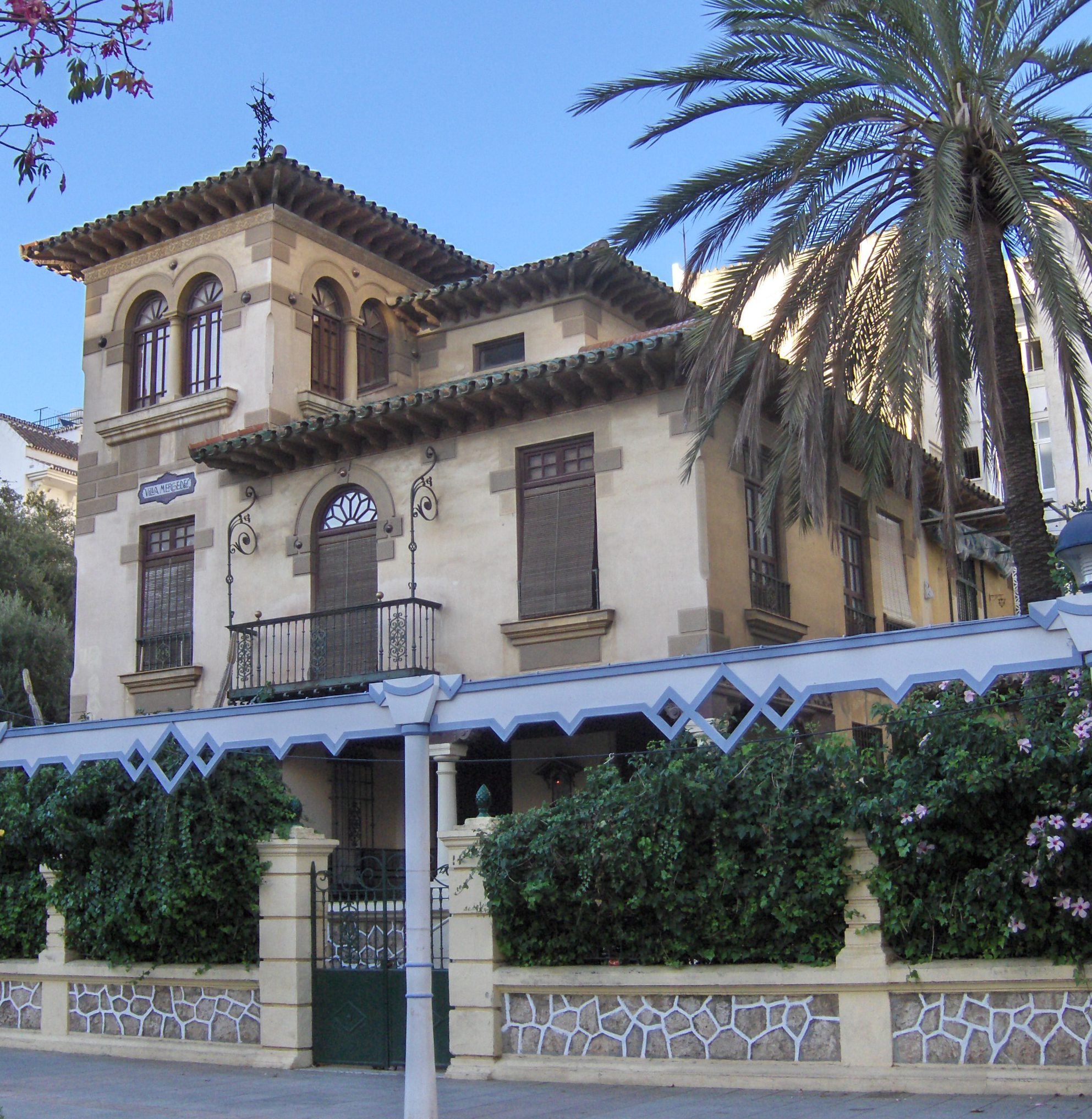 Villa Mercedes in Torre del Mar, Vélez-Málaga, Spain.